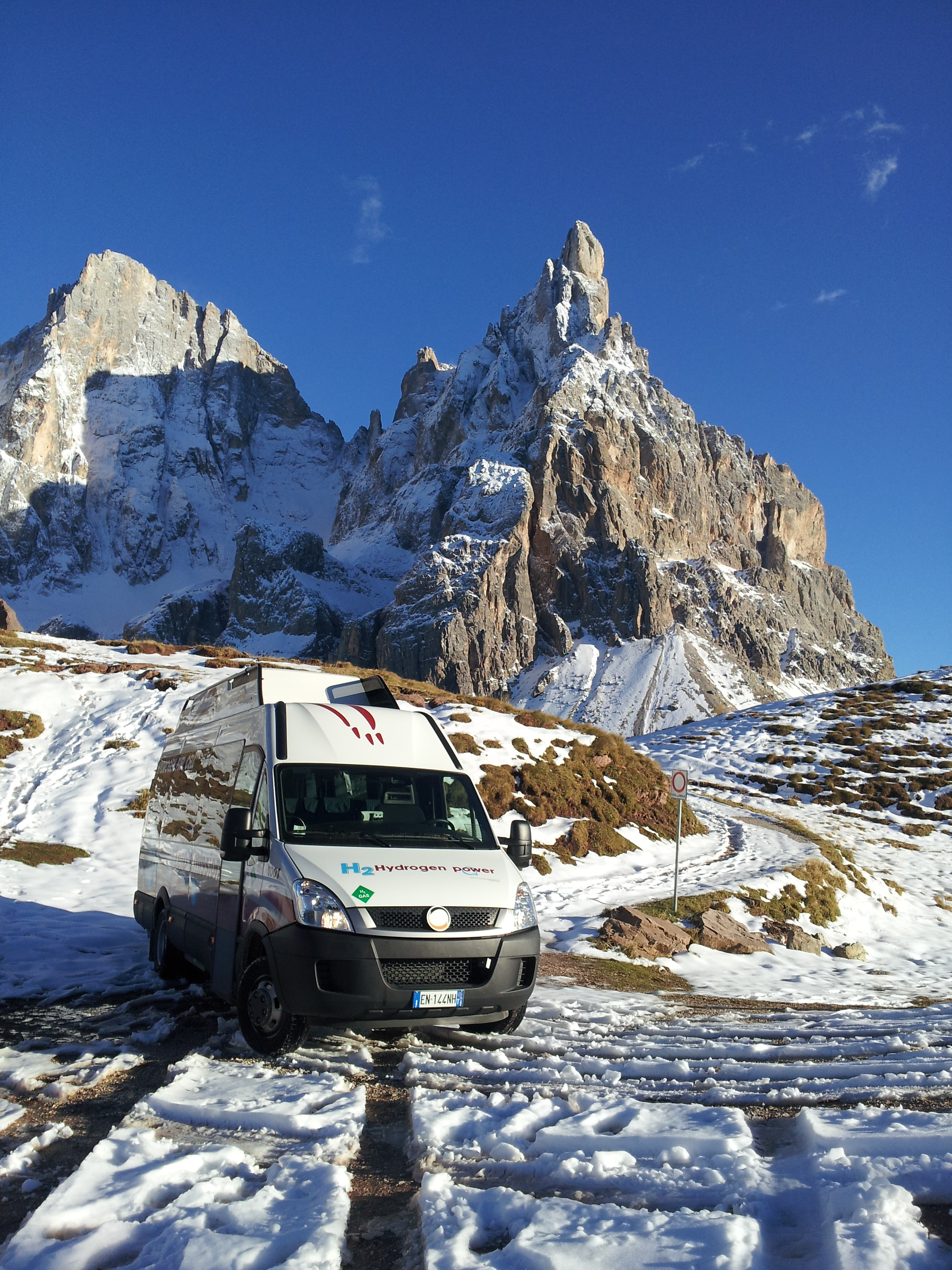 Hybrid Fuel Cell BUS